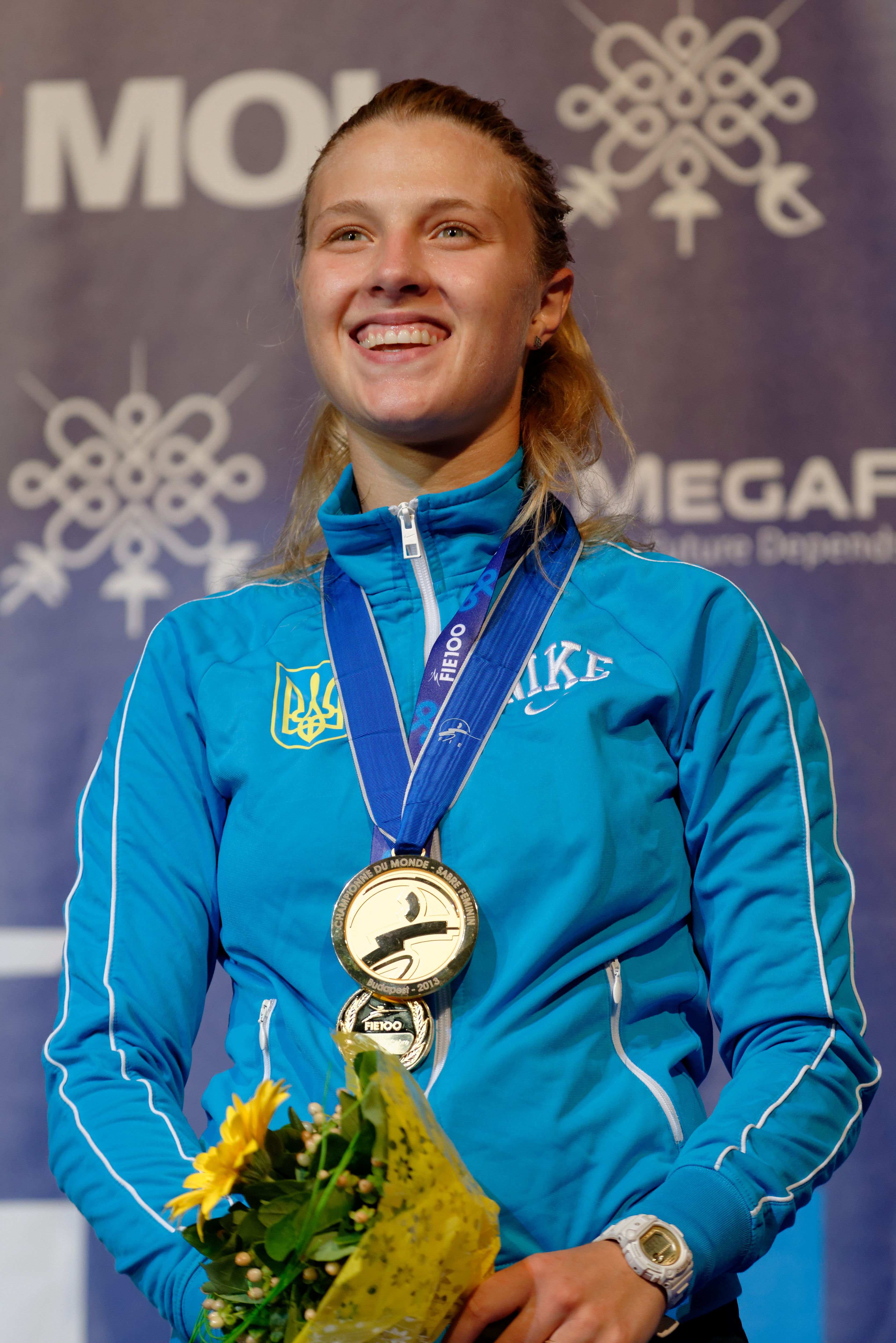 Ukraine's Olha Kharlan stands on the podium of the women's sabre event of the 2013 World Fencing Championships 2013 at Syma Hall in Budapest on 9 August 2013.